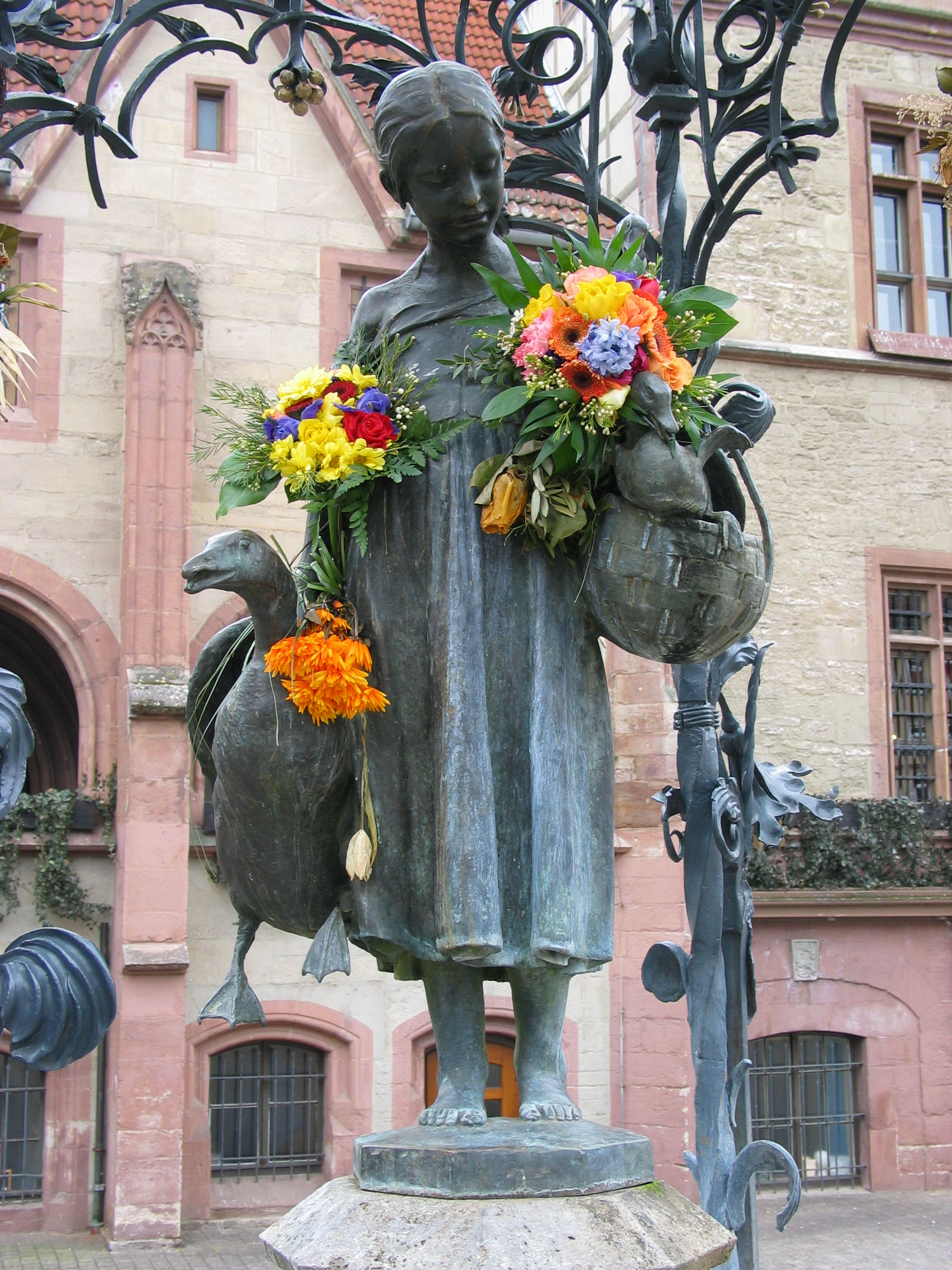 Gänseliesel fountain on the market square in Göttingen. Old townhall in the background.